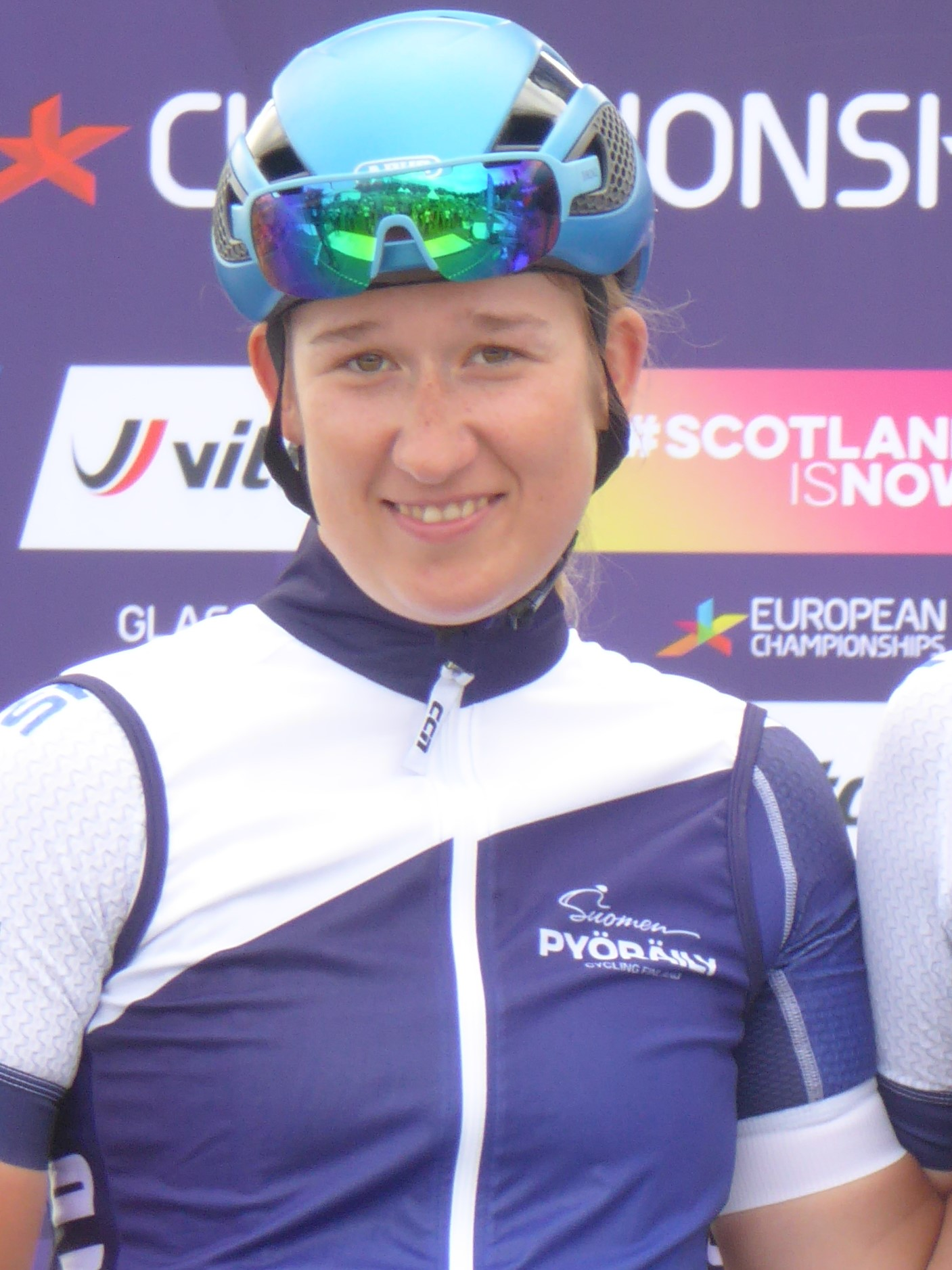 Laura Vainionpää (Finland), prior to the women's road race at the 2018 UEC European Road Cycling Championships in Glasgow.